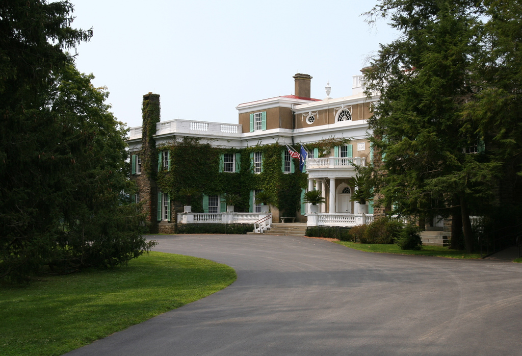 View of Springwood, the FDR home.